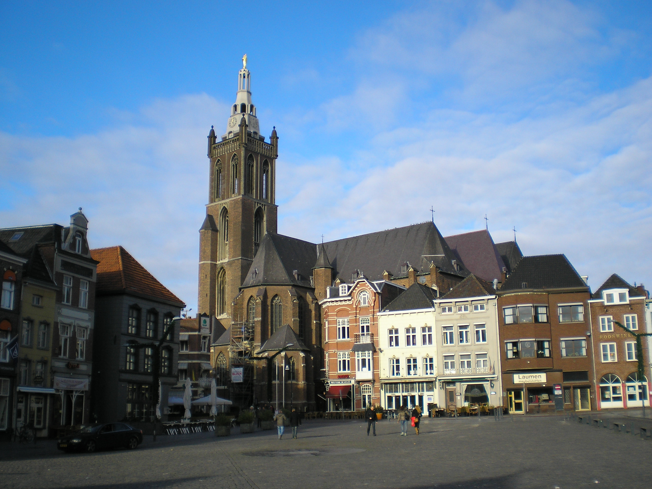 Christoffelkathedraal seen from the Markt in Roermond in Netherlands